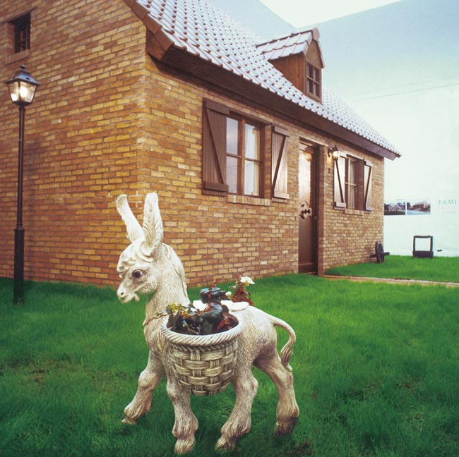 "Fami-Home" installation by the Belgian artist Guillaume Bijl. Photographer: Marranzano